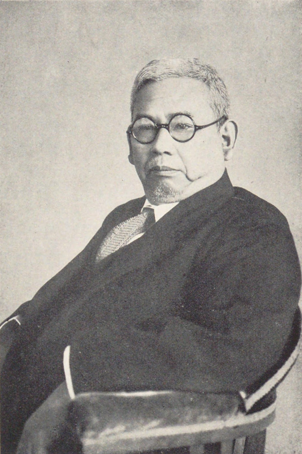 Kuroita Katsumi, a Japanese historian.